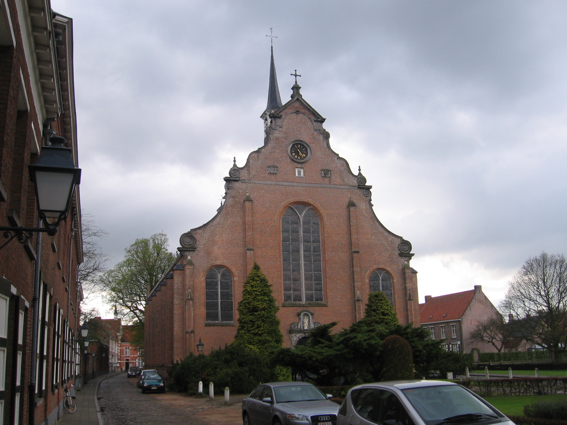 Turnhout, 29 april 2006